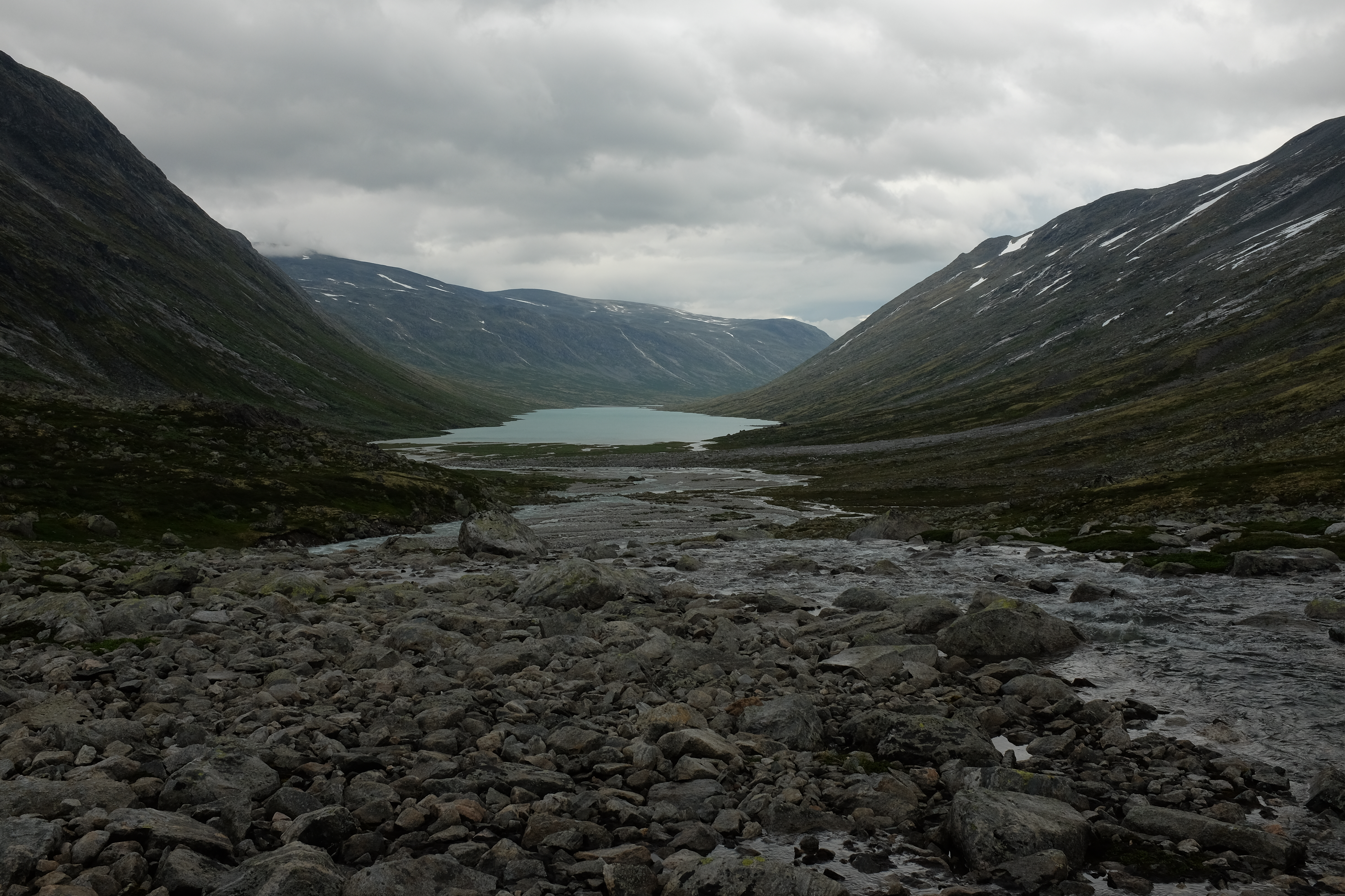 Lundadalsvatnet lake seen from Valldalen valley. The lake is 1,149 meters above sea northeast of Hestbreapiggan in Breheimen National Park. The lake has a significant inflow of glaciers in the area, including Holåi from Holåbreen north. NOTE: Location of photographer is presumably Vesldalen near Trulsbu lodge.